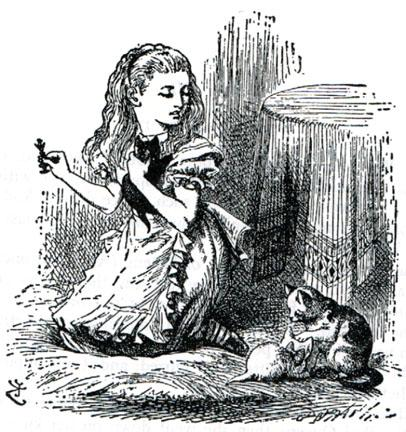 Dinah washing her kittens from Through the Looking-Glass